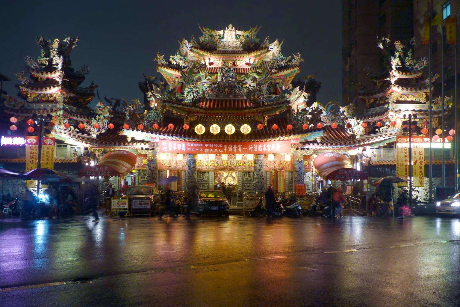 Main facade of Ciyou Temple in Songshan, Taipei, Republic of China